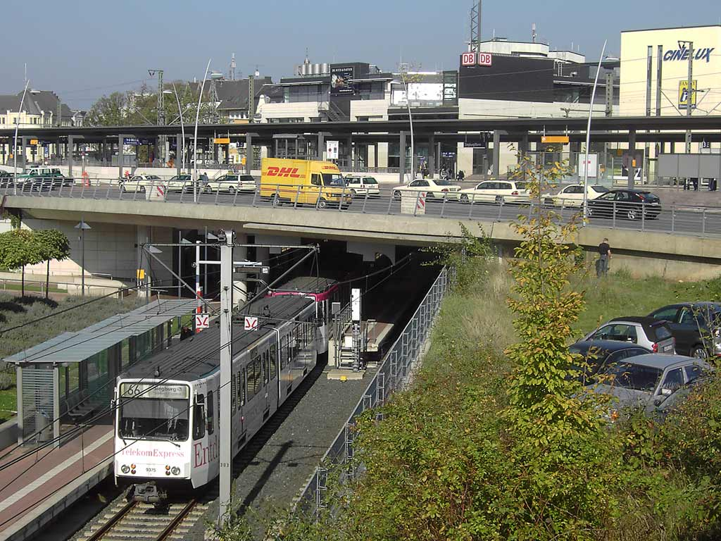 Urban railway train of the Siegburger Bahn (line 66) at the station Siegburg Bahnhof.